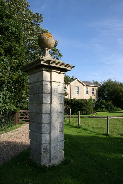 Stainfield Hall. This solitary gatepier is all that remains of the grand 16th century house built by Sir Robert Tyrwhit, the current house was built in 1856.